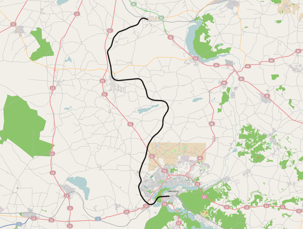 Railway line Rødkærsbro - Silkeborg